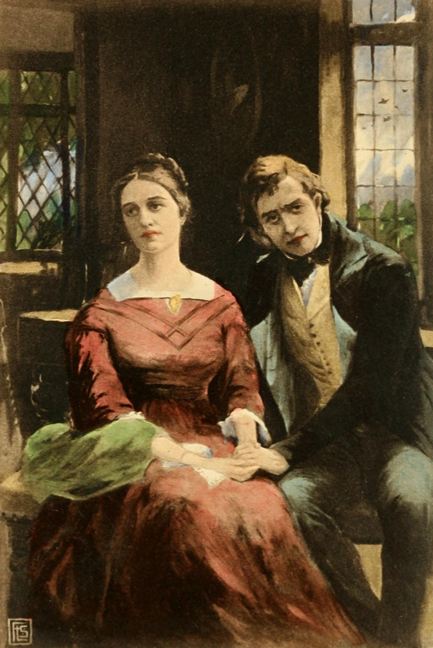 Dorothea Brooke and Will Ladislaw from Middlemarch by George Eliot